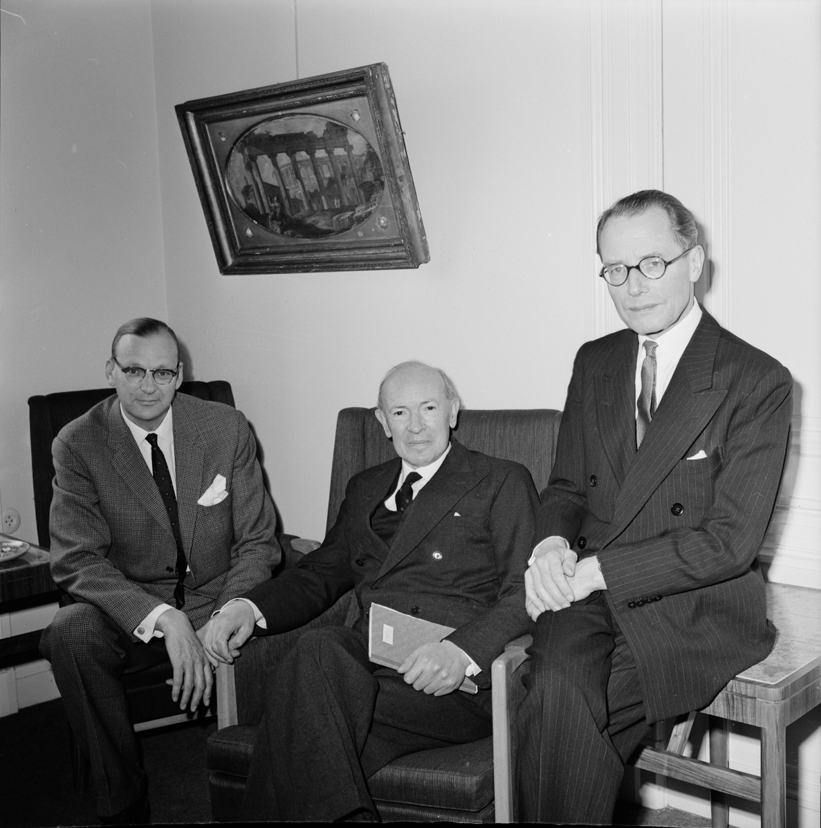 Photograph of the Swedish docent Lars Åhnebrink, British literary scholar Allardyce Nicoll and Swedish professor A. Donner at Uppsala University during Nicoll’s visit.